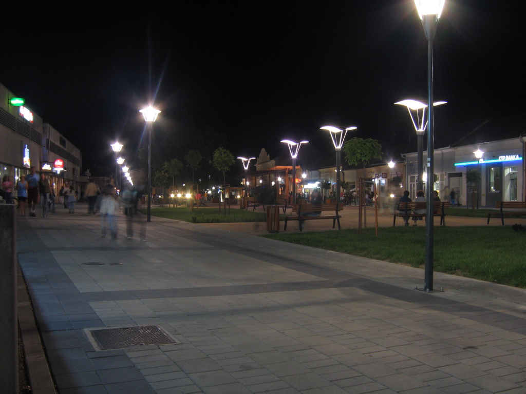 Pedestrian zone in Slovak town Štúrovo was constructed behind financial support European union.